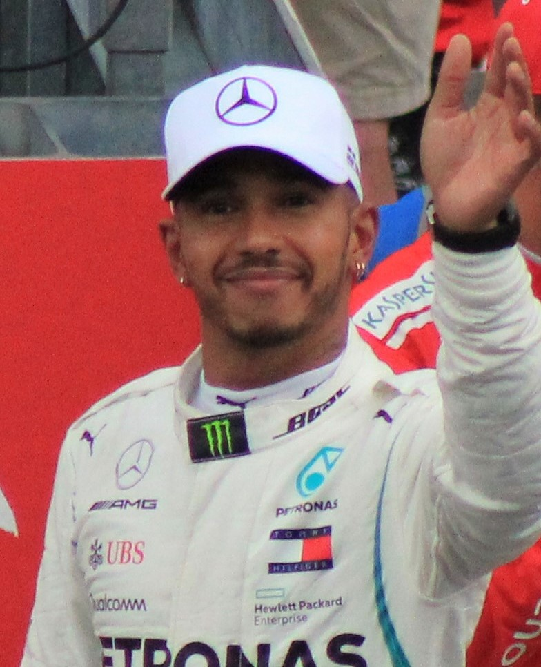 Lewis Hamilton 2018 cropped2